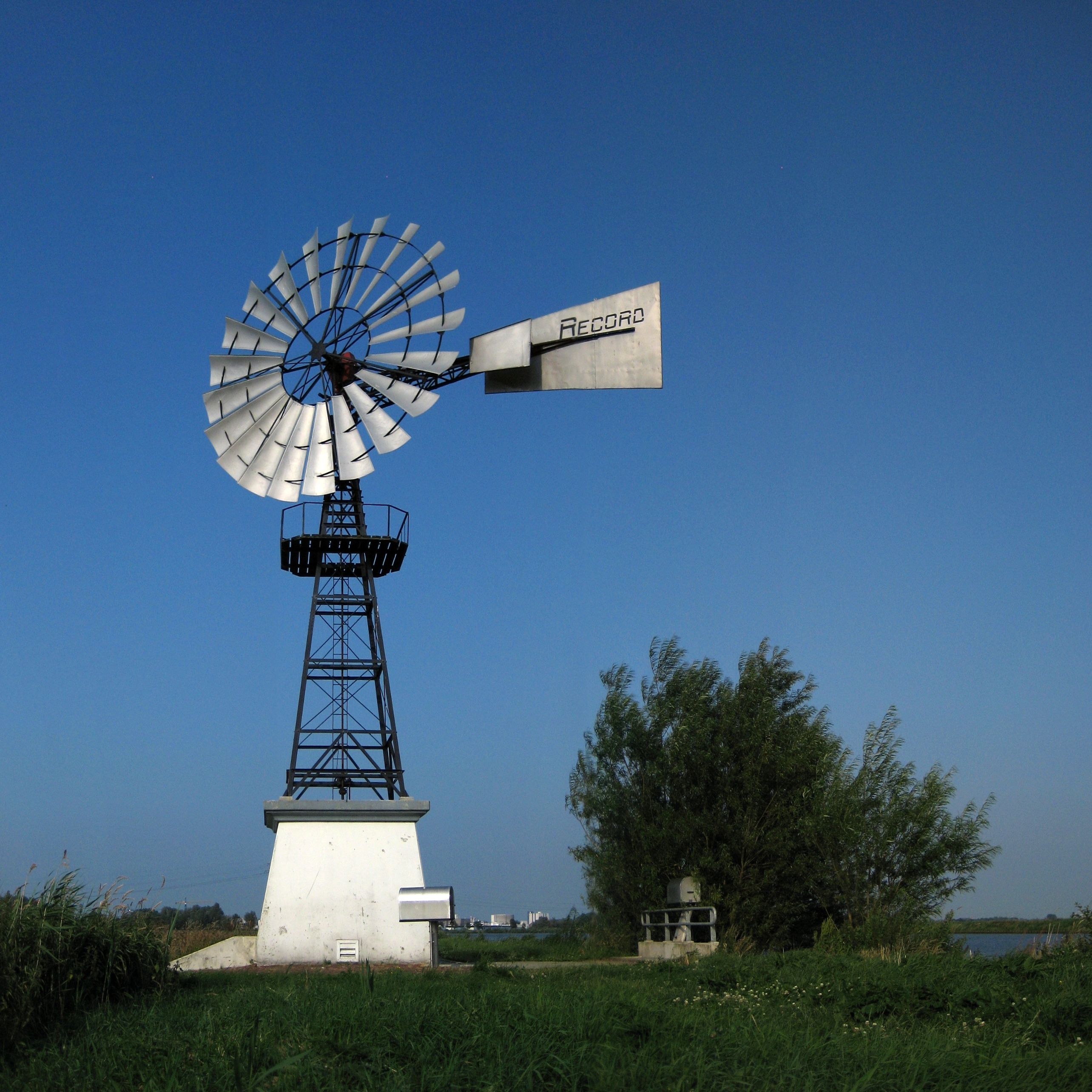 De Putter, a wind pump in the Dutch province of Groningen.